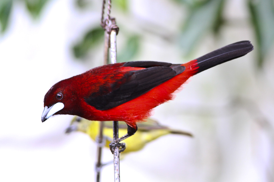 Journey Libano to Bogota